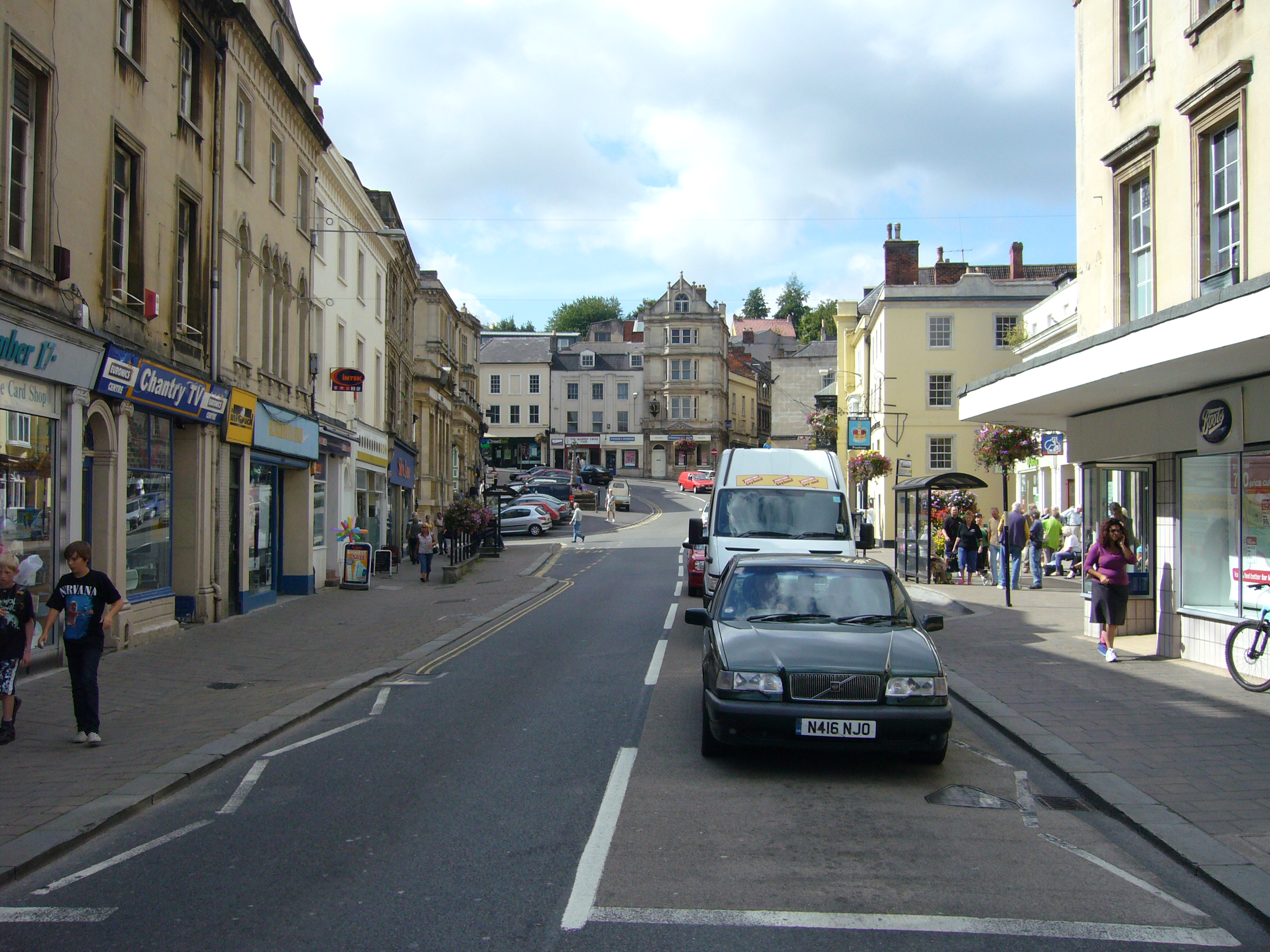 Market Place in the centre of Frome. Photographed in September 2007. Required attribution is: Photo by Tom Oates.